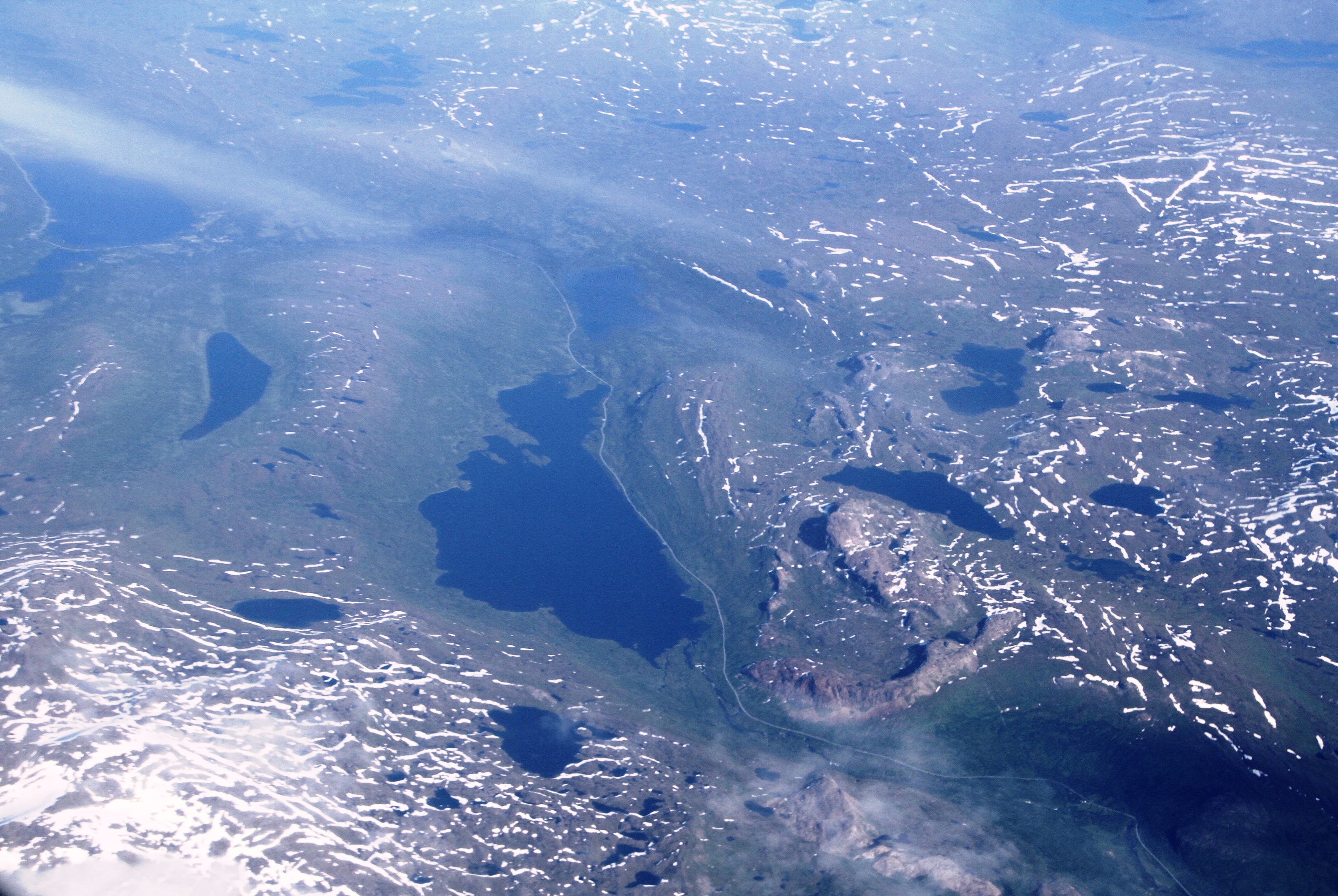 Aerial view from the west towards east, over eastern Hattfjelldal municipality and Sweden in the distant back.